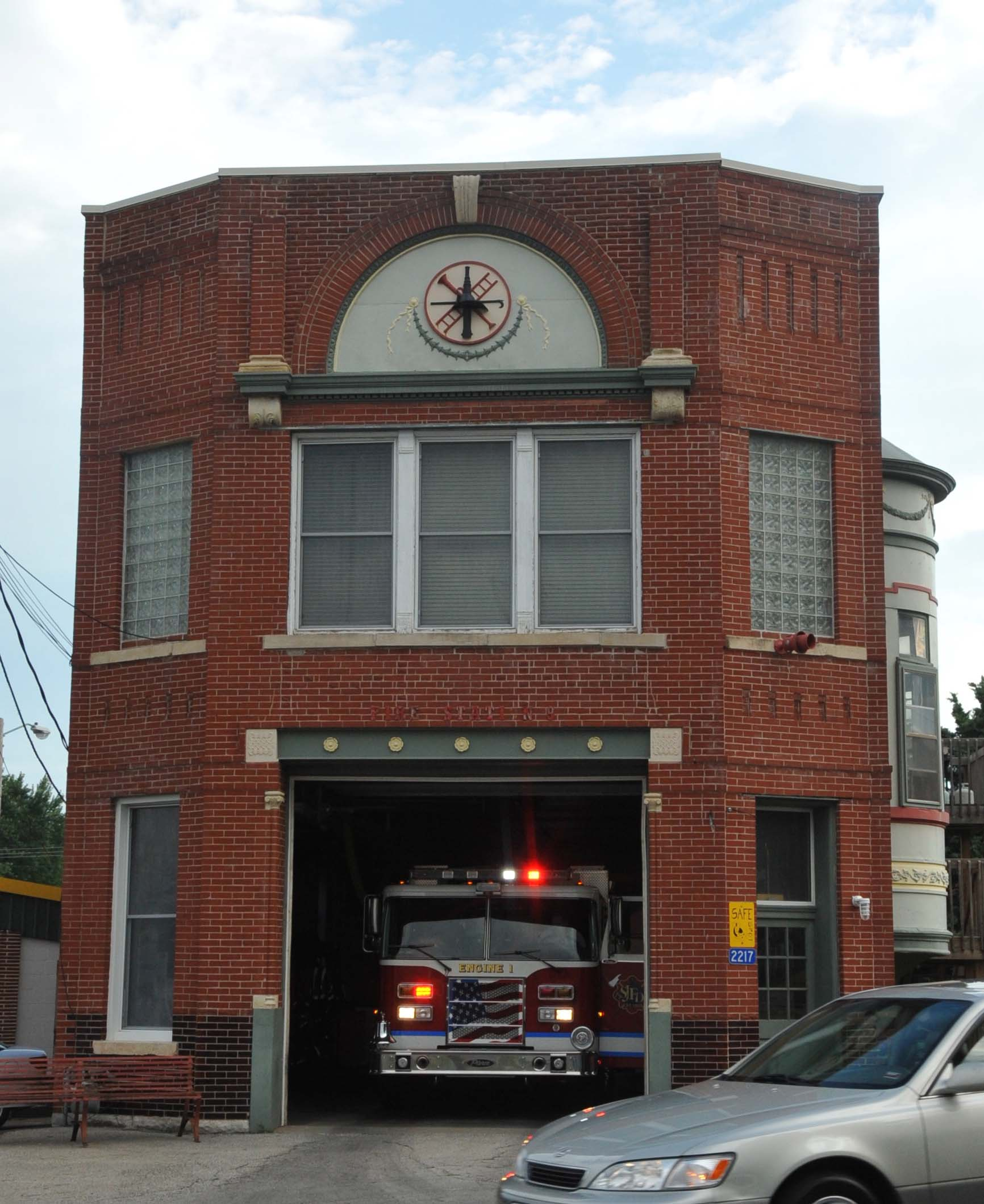 BUILT IN 1900; THE OLD FEATURES OF BAY WINDOW AND WOODEN INTERIOR ARE ALL THAT'S LEFT OF A FIELD WHERE FIRE STATION HORSES WERE GRAZED AND STABLES AND WAGONS WERE KEPT.